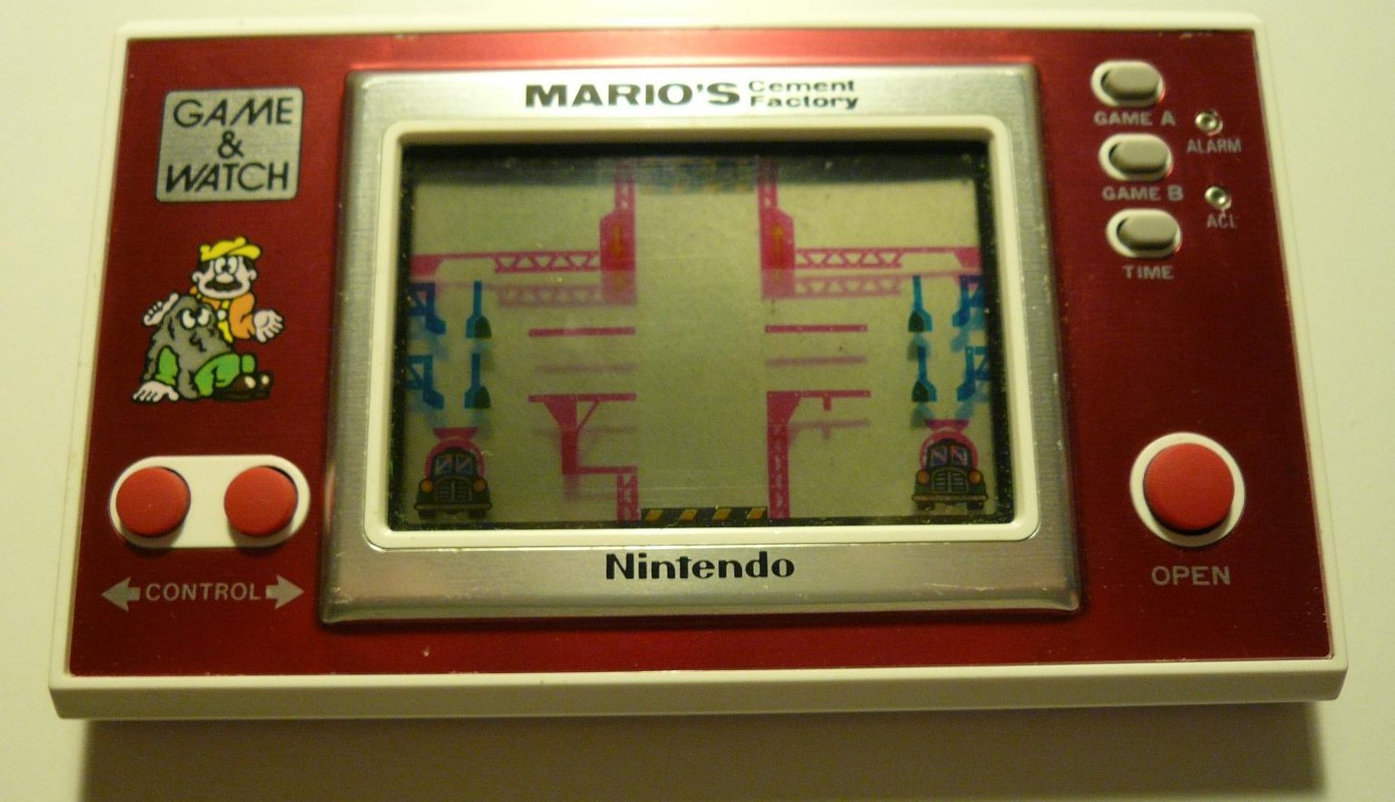 Mario's Cement Factory (widescreen) - Game&Watch - Nintendo